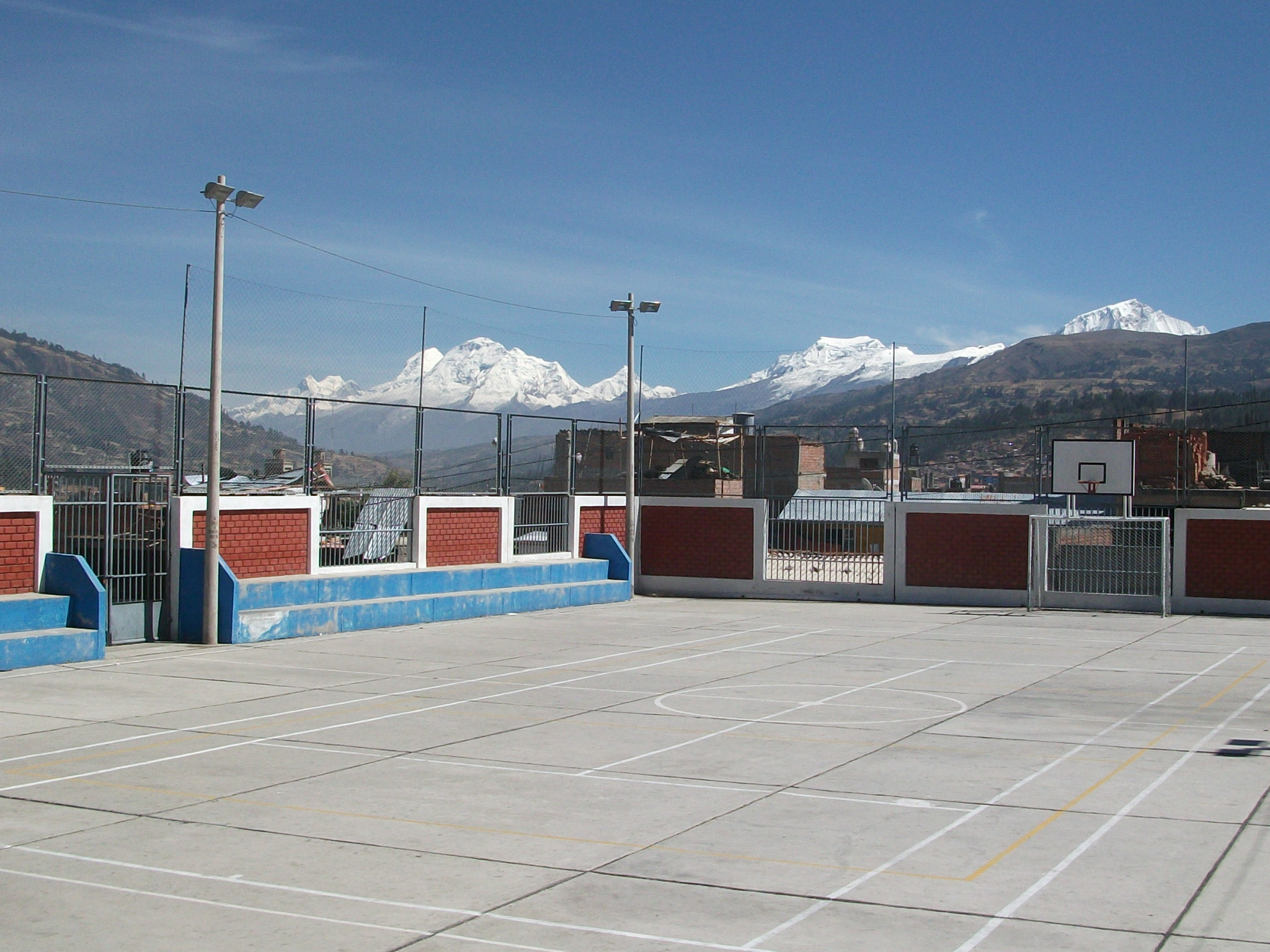 Huascaran and Huandoy Mountain seen from Huaraz city